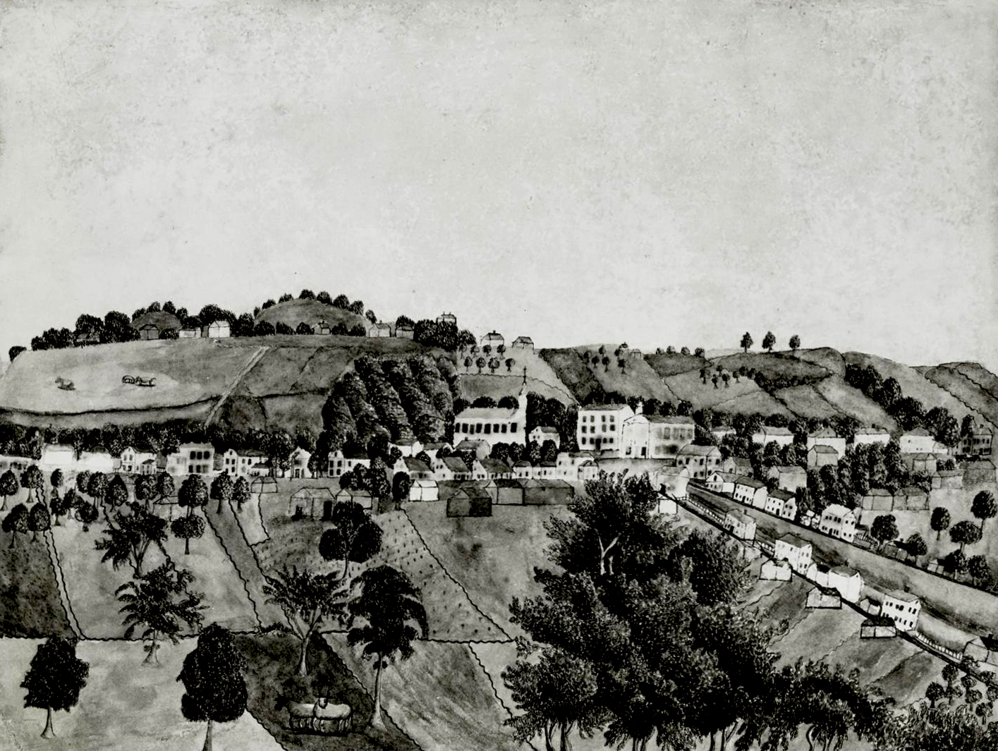 Reproduction of a watercolor.